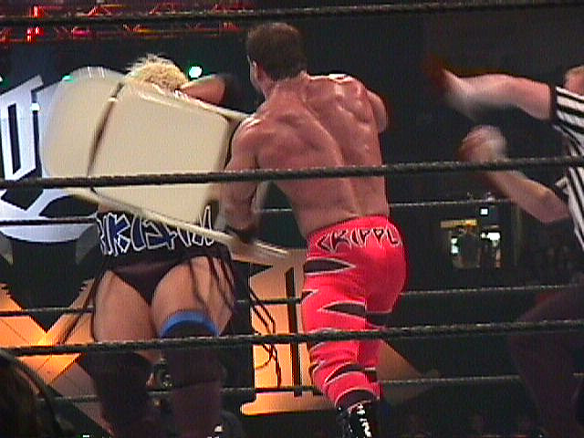 Rikishi vs. Chris Benoit at the WWF King of the Ring at the Fleet Center in Boston, MA in 2000 - Mr. Benoit was disqualified after the ref acually saw him hit Rikishi with the steel chair